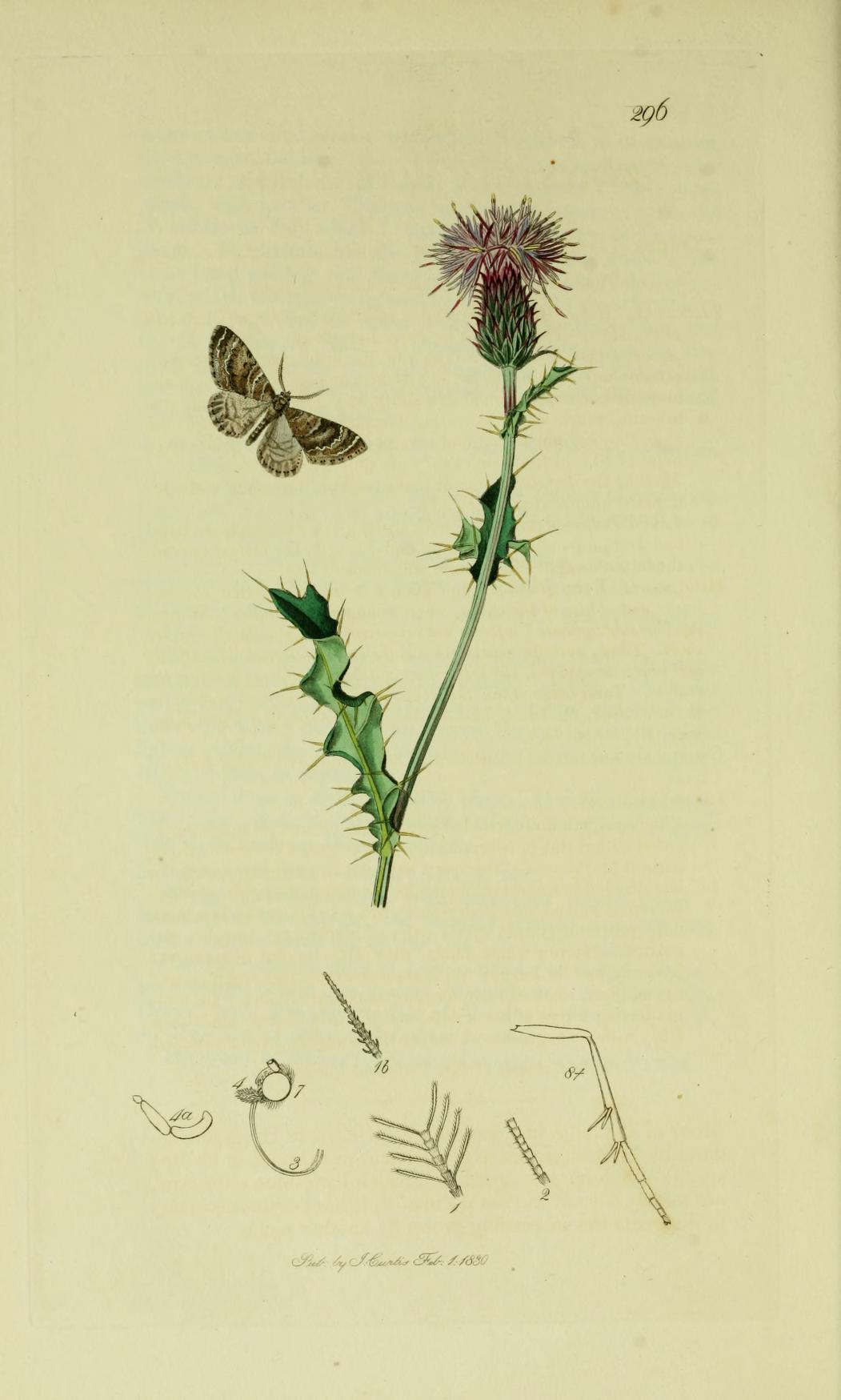 An illustration from British Entomology by John Curtis. Lepidoptera: Zerynthia latentaria or Coenotephria salicata ssp. latentaria (Striped Twin-spot Carpet).